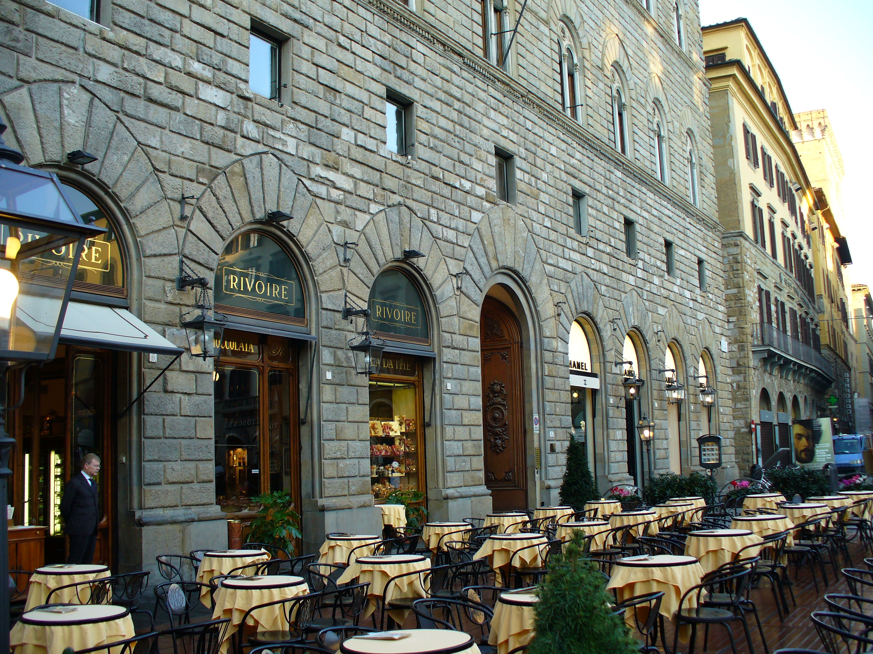 Rivoire (Florence)